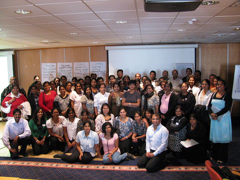 Native language conference, Norway